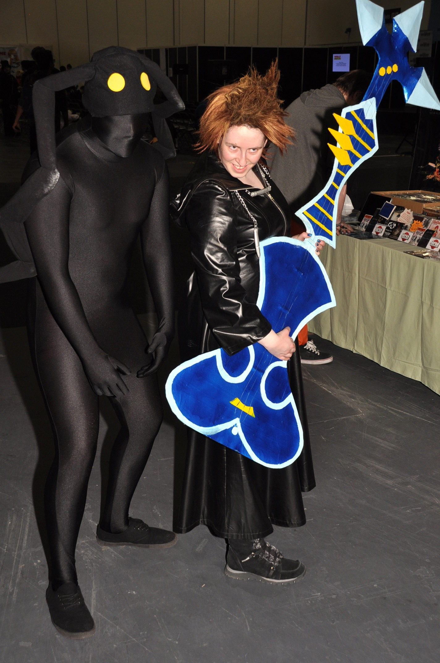 DSC_0126 Cosplay at the Summer 2013 MCM London Comic Con at the ExCeL Exhibition Centre.